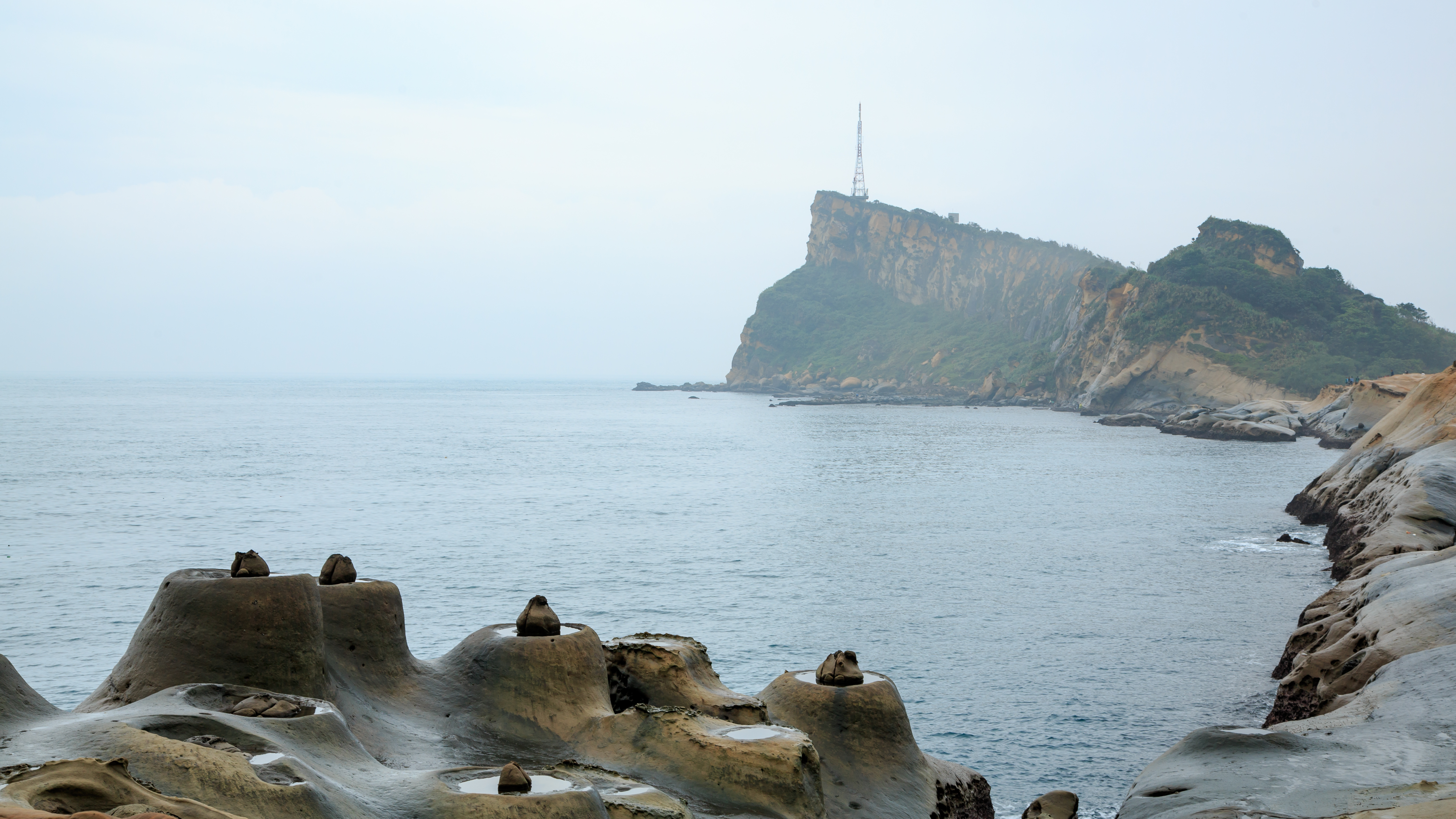 Yehliu, Taiwan: Rock formations (Candle rocks) in Yehliu GeoPark